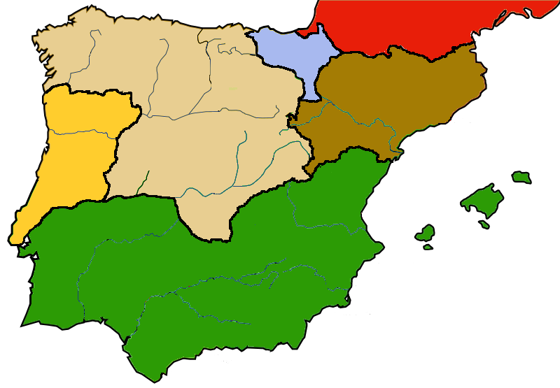 Basat en file:España1150.jpg